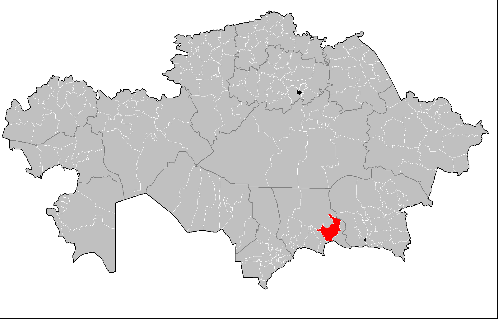 Map of the rayons of Kazakhstan. Created by Rarelibra 16:49, 3 August 2007 (UTC) for public domain use, using MapInfo Professional v8.5 and various mapping resources.